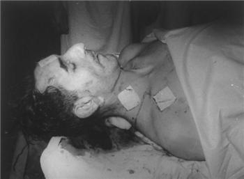 Haj Ali Razmara's body murdered by Fada'iyan-e Islam group.